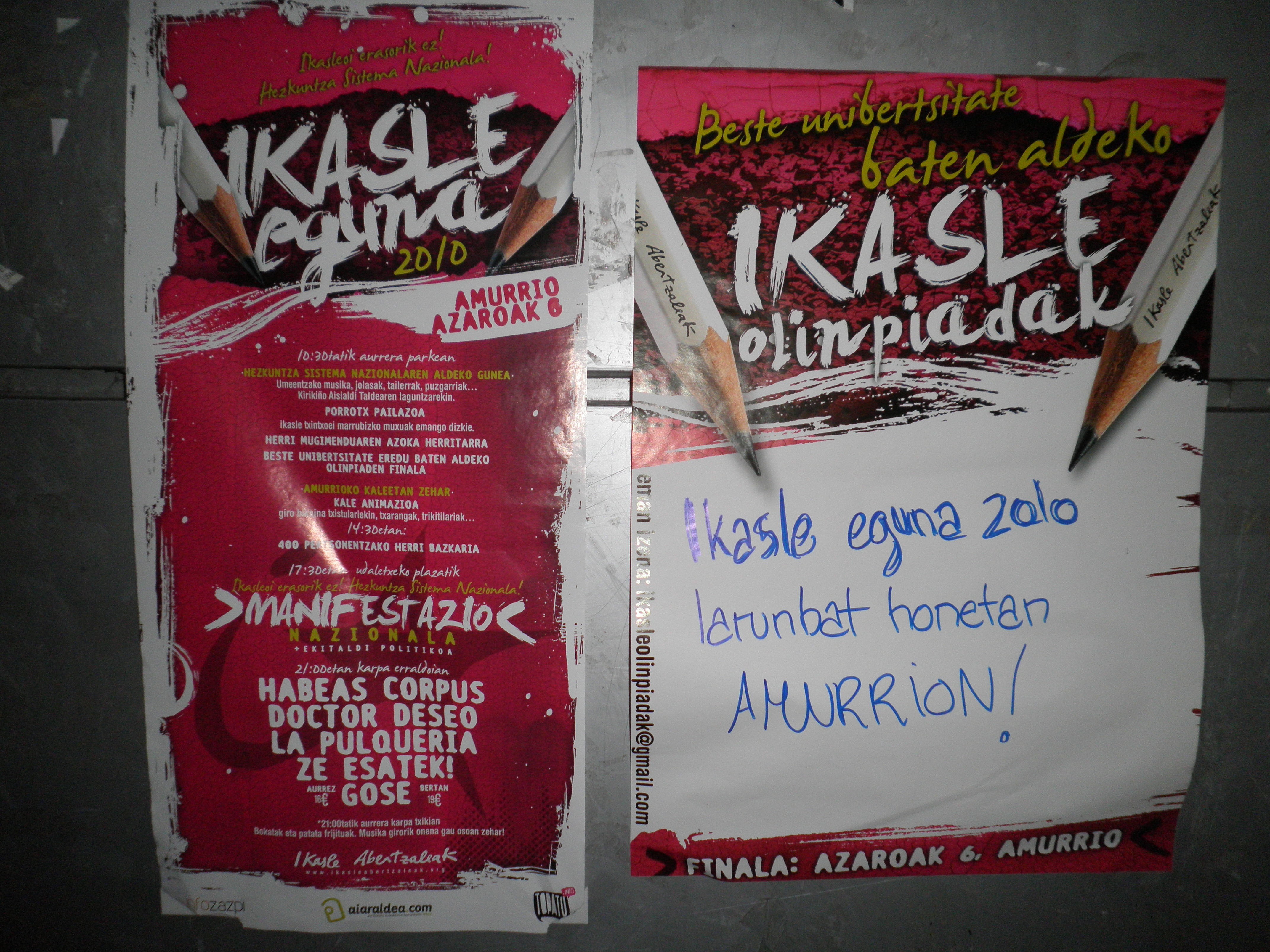 Poster made by Ikasle Abertzaleak basque leftist and nationalist students organization calling for a meeting and festival. 2010.